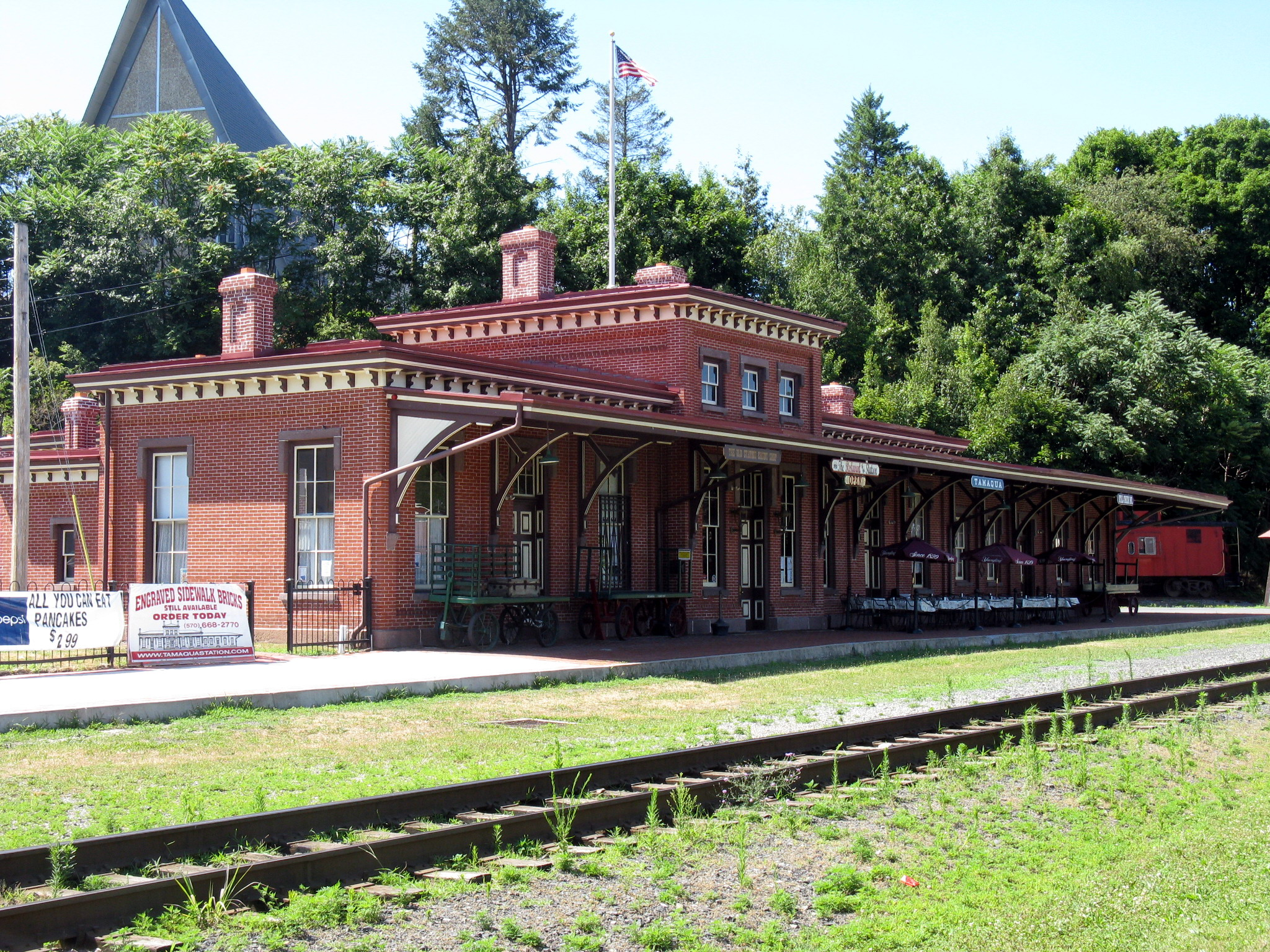 The Tamaqua Railroad Station is a railroad station in Tamaqua, Pennsylvania originally constructed by the Philadelphia and Reading Railroad in 1874, which had earlier acquired the Little Schuylkill Navigation Railroad and Coal Company.[2] It was listed on the National Register of Historic Places on December 26, 1985. (REF# 85003164) The roof of the Trinity United Church appears in the background